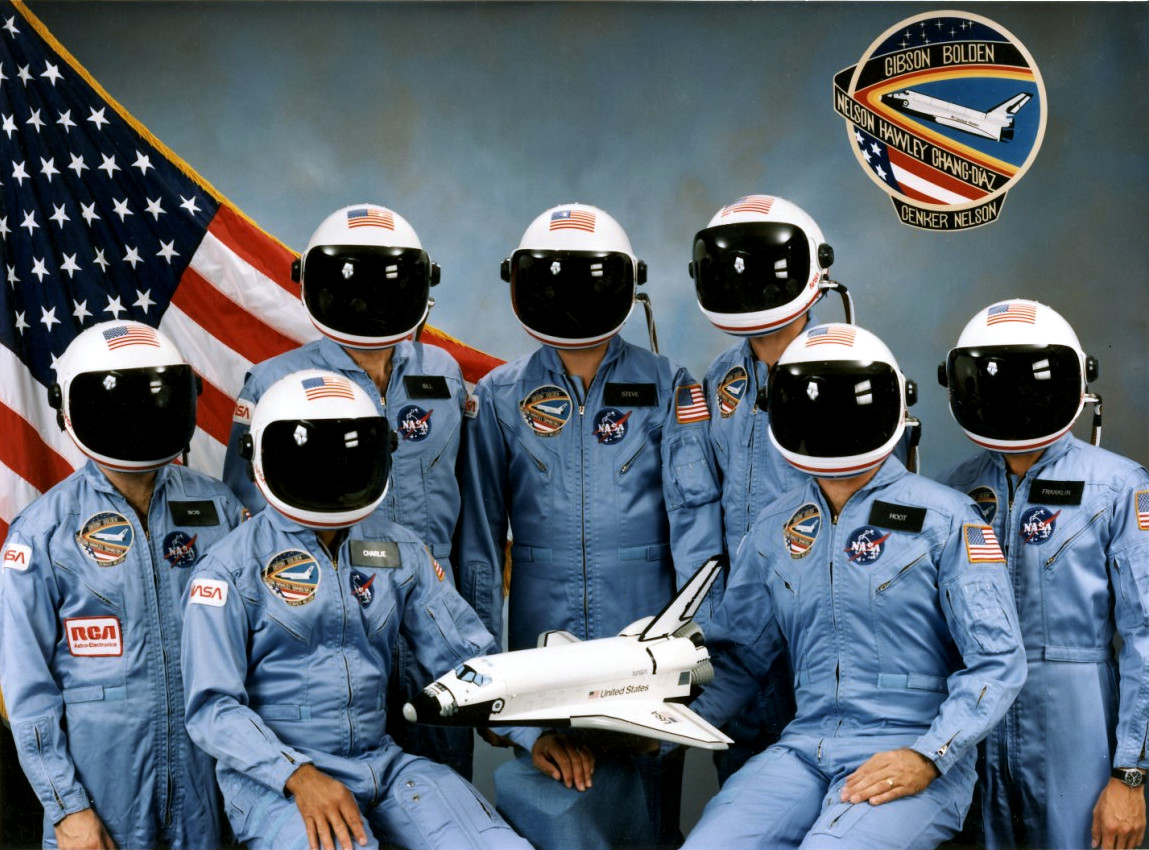 Humorous gag photo of the STS-61C crew. Back row L–R: Bill Nelson, Hawley, George Nelson. Front row L–R: Cenker, Bolden, Gibson, Chang-Diaz.